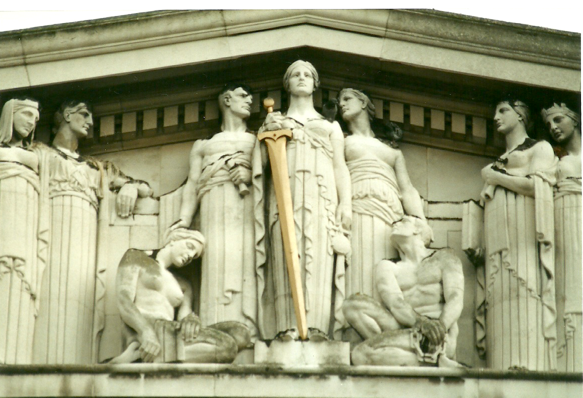 Close-up of statuary - principal frontage of Nottingham Council House